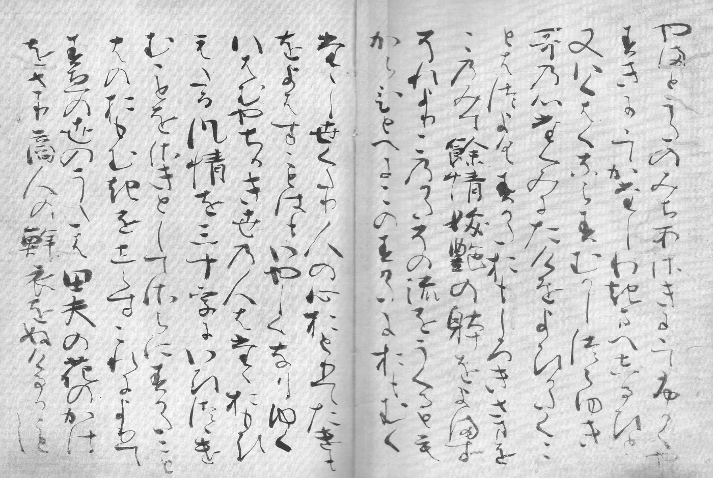 Kindaishuka(Superior Poems of our Time)